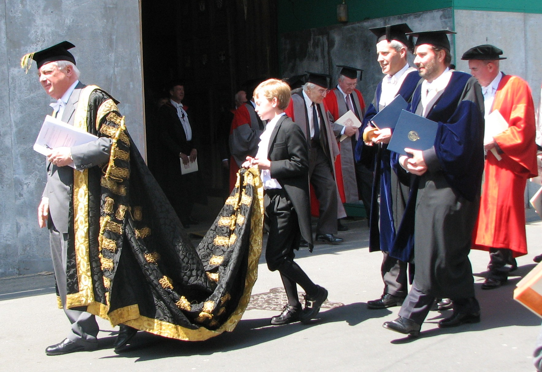 The Proctors, Heads of Houses and other members of Congregation follow the Chancellor of the University of Oxford, the Lord Patten of Barnes, out of the Sheldonian theatre after Encaenia 2009.